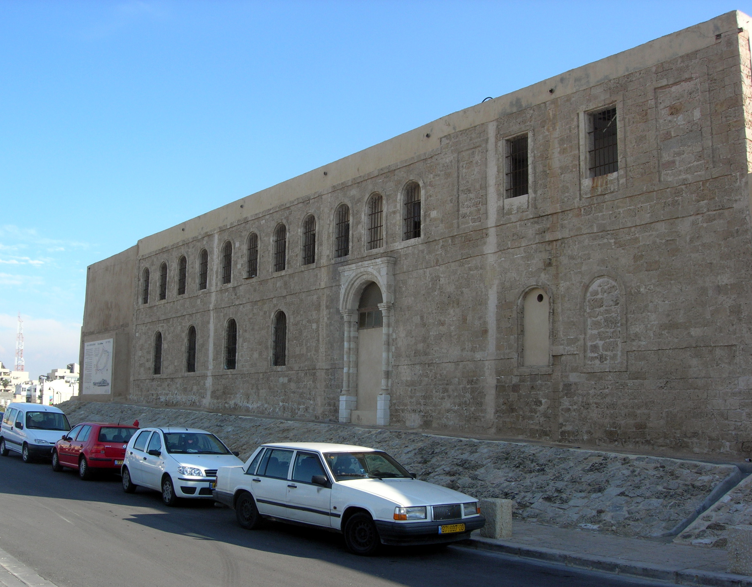 Jaffa Police Station